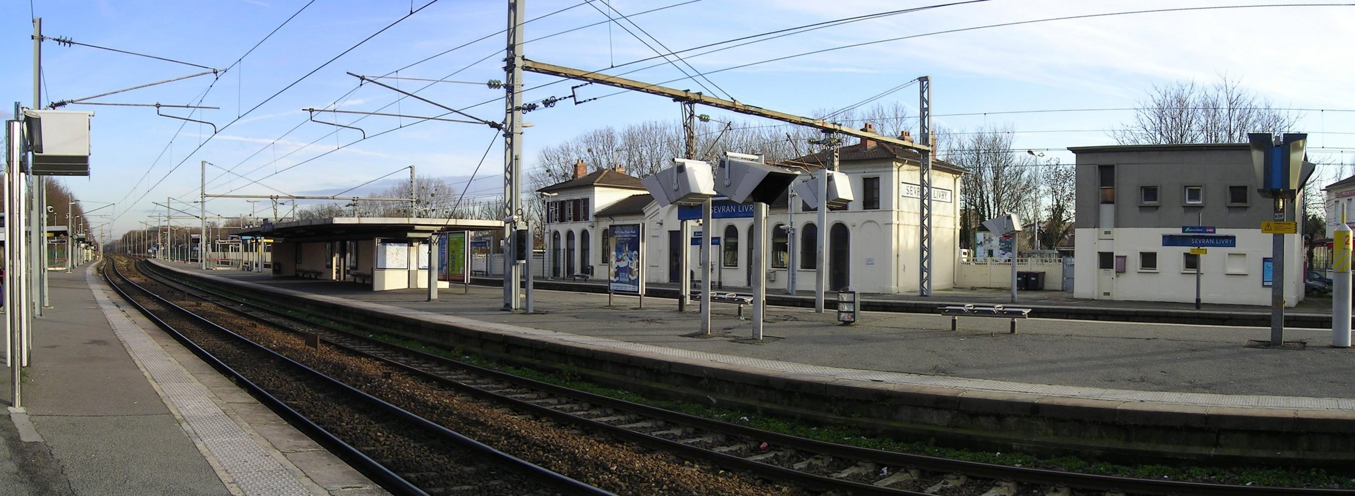 La gare de Sevran-Livry, RER B Photo personnelle (own work) de Marianna